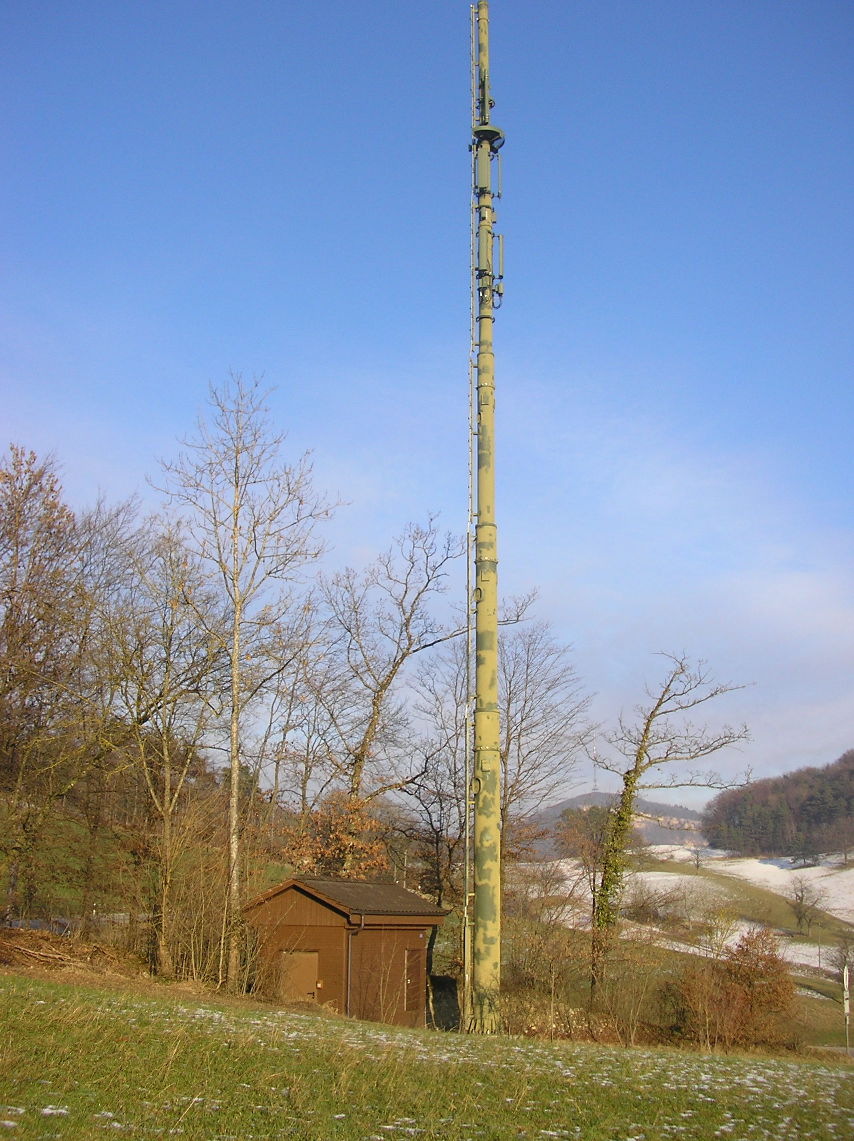 Polycom radio mast at Bözberg Pass in Switzerland